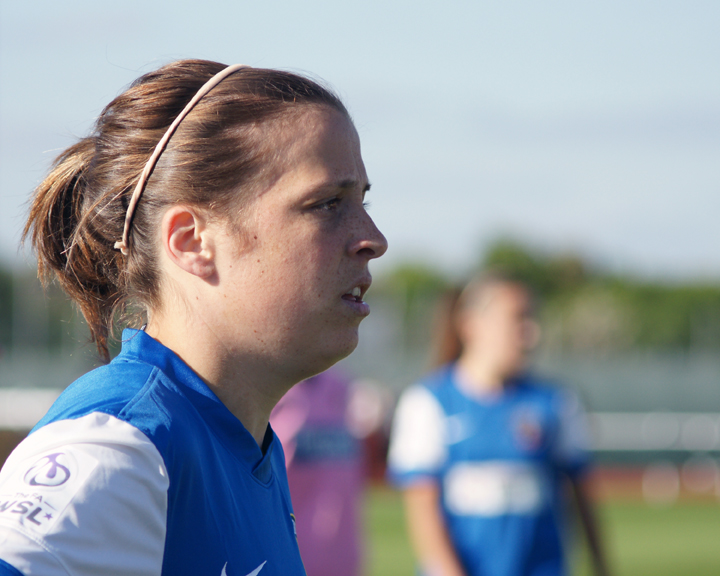 Ann-Marie Heatherson playing for Bristol Academy vs Lincoln at Stoke Gifford